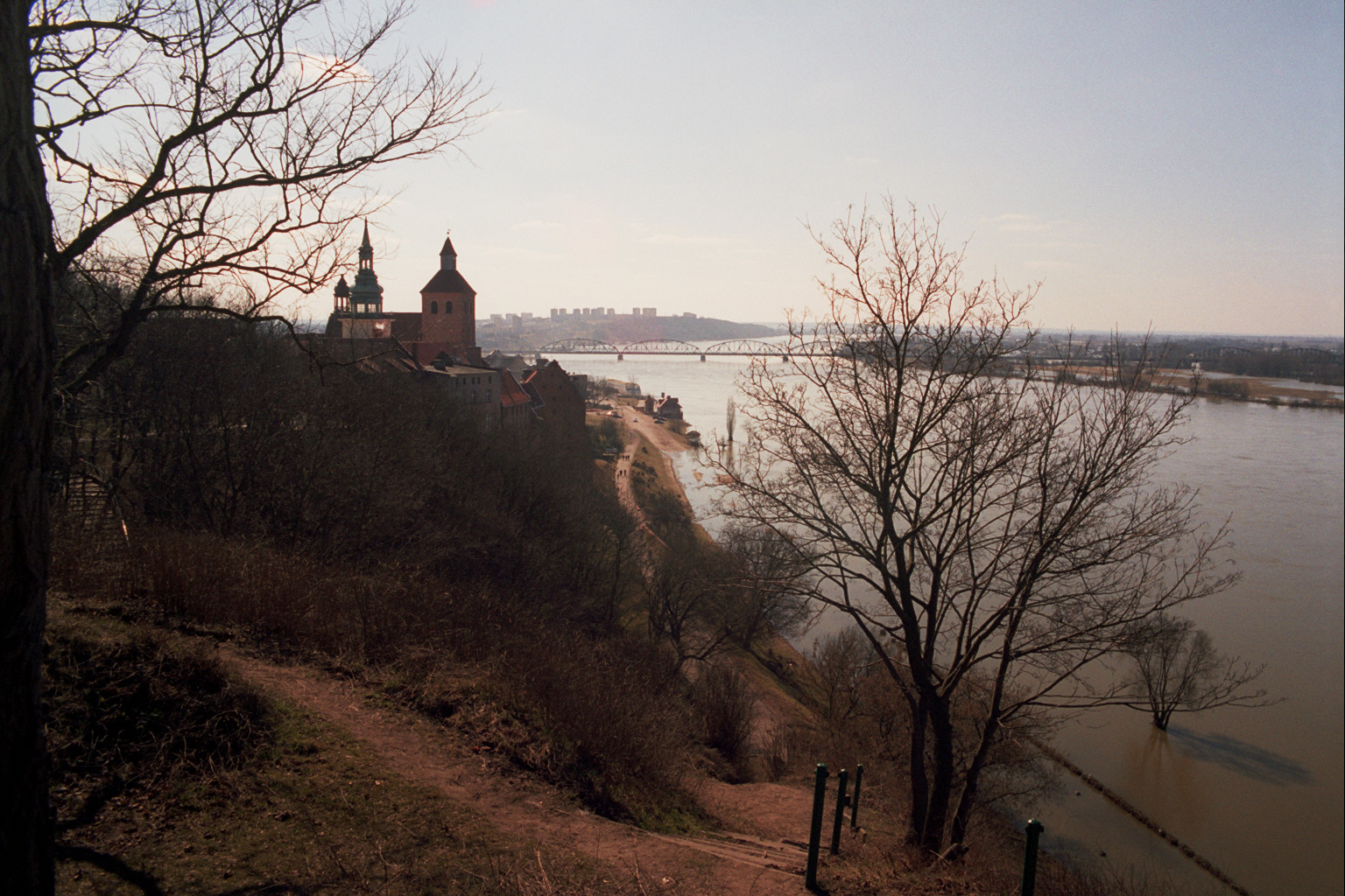 Grudziądz, view on the town and river during flood on Vistula.